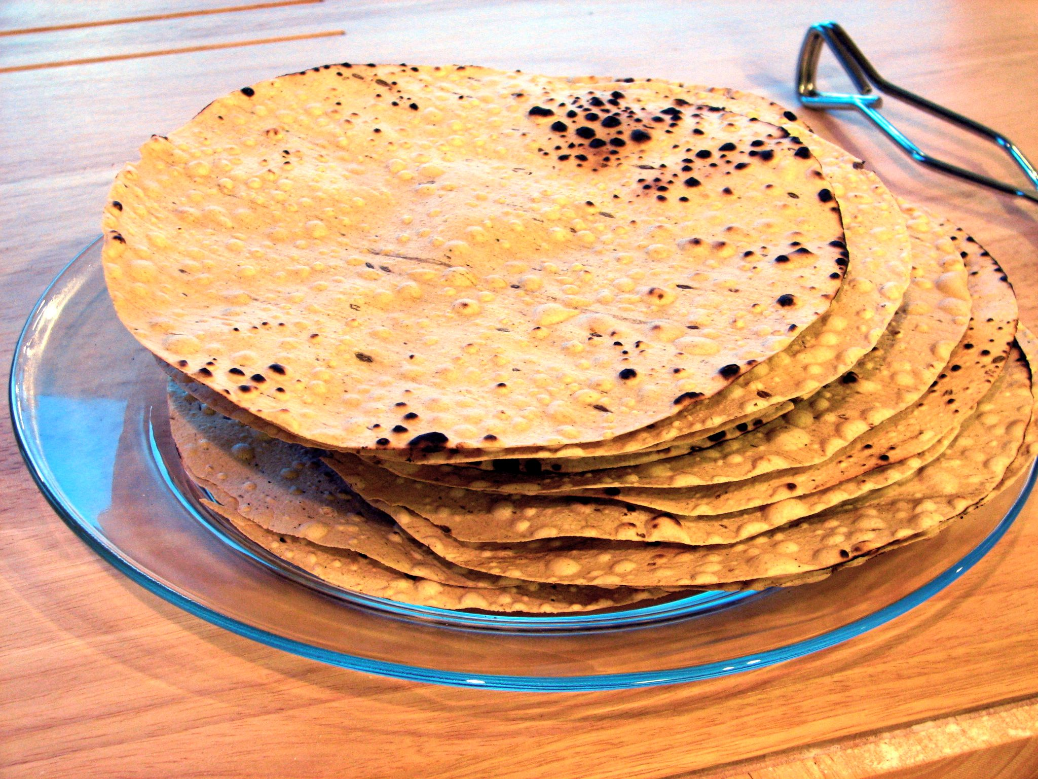 Stack of roasted papadums